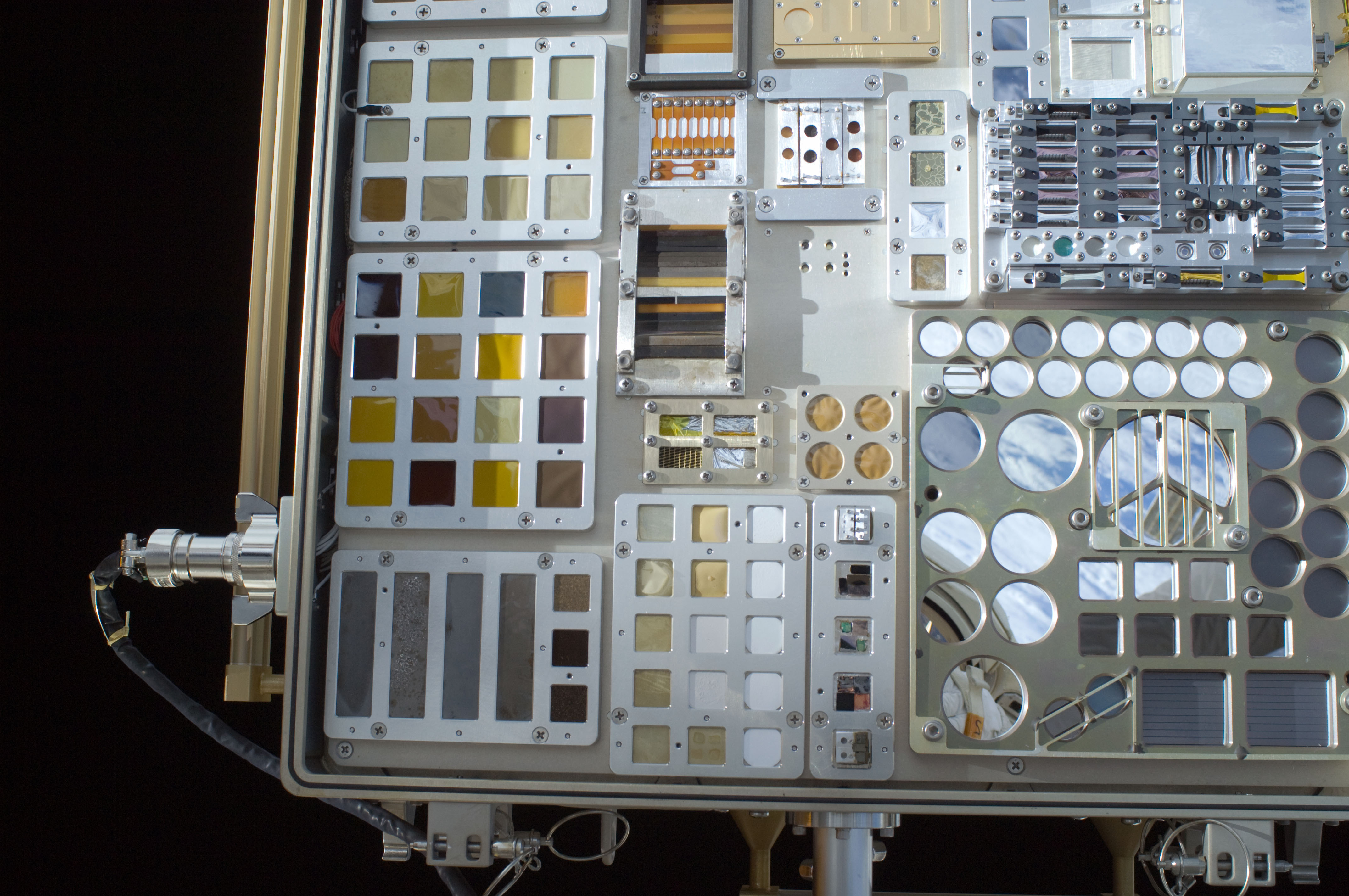 A close-up view of a Materials International Space Station Experiment (MISSE-6) on the exterior of the Columbus laboratory is featured in this image photographed by a space walking astronaut during the STS-128 mission's first session of extravehicular activity (EVA). MISSE collects information on how different materials weather in the environment of space. MISSE was later placed in Space Shuttle Discovery's cargo bay for its return to Earth.